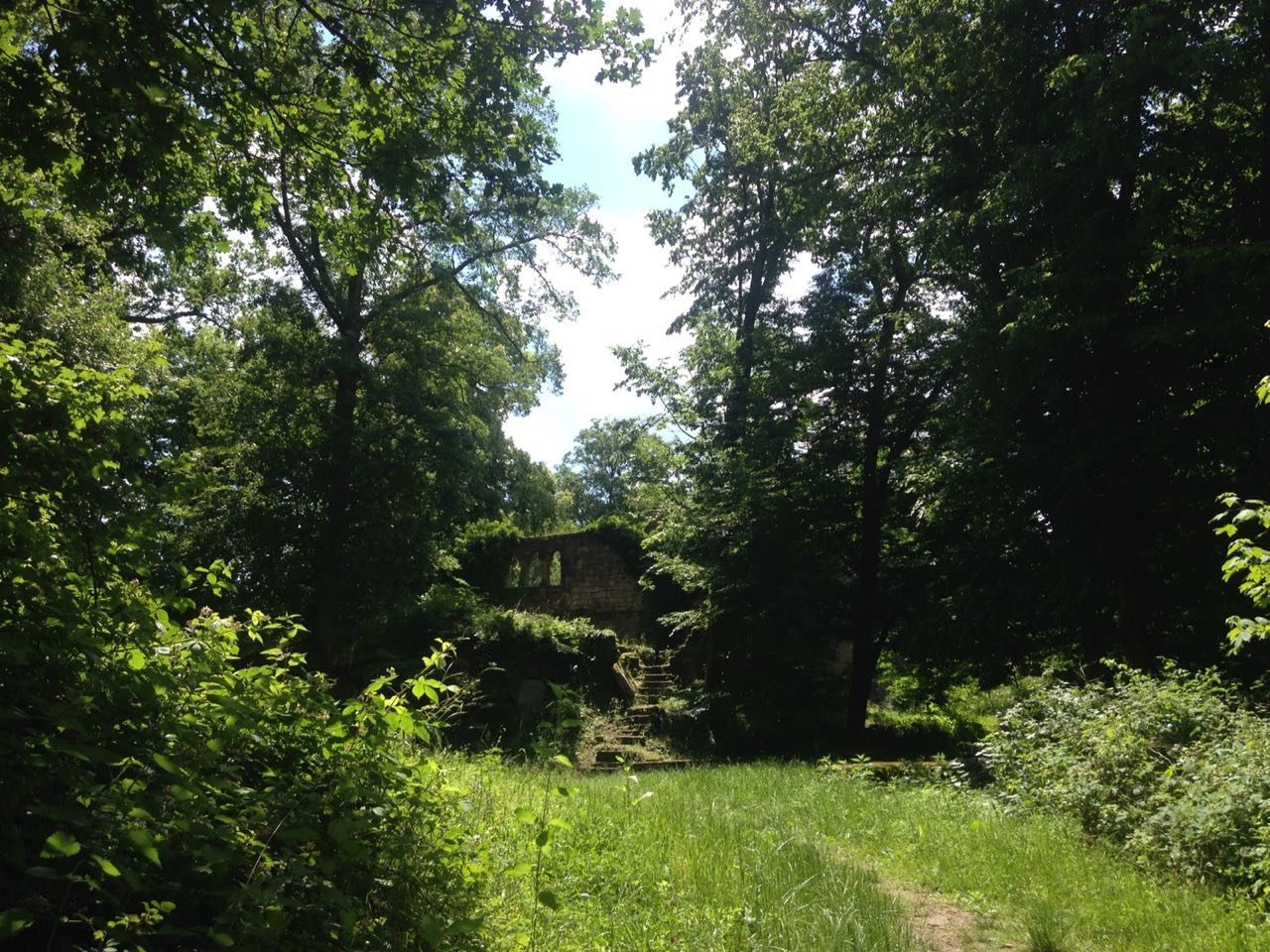 A view of Eberbach Castle as you come to it from Eberbach.